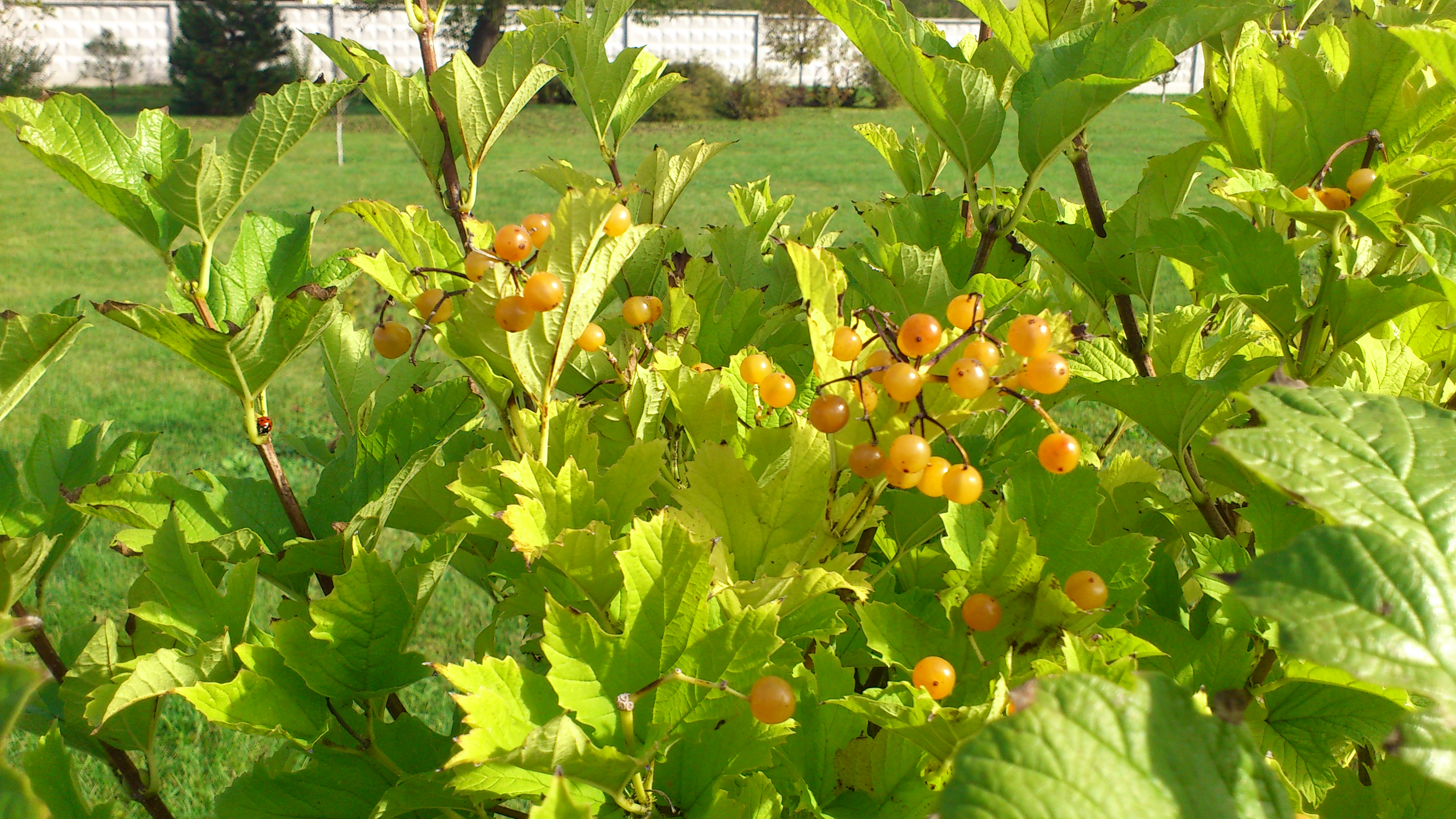 Viburnum with yellow fruits